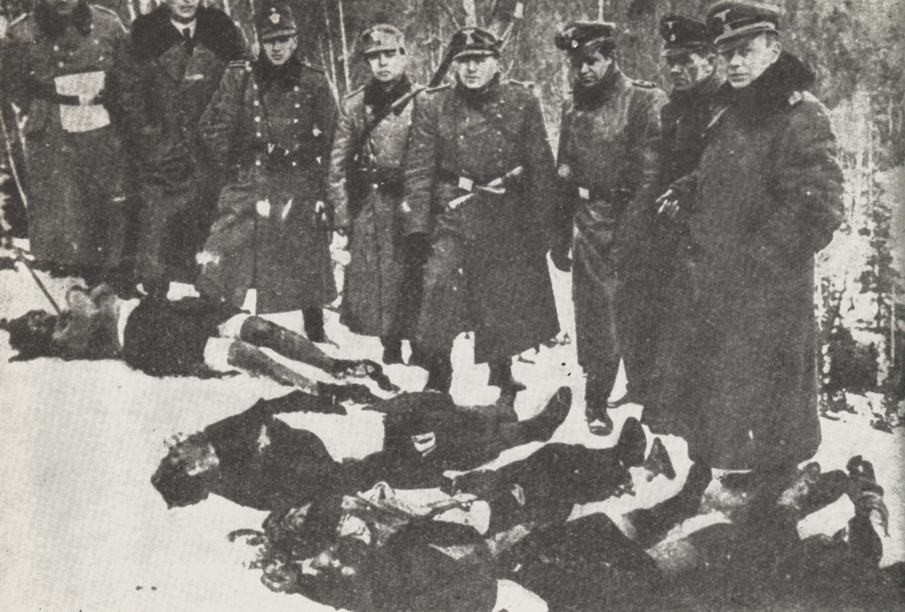 Members of the SS posed with bodies of their victims – somewhere in German-occupied Poland. Original inscription at the back of the photo (in Polish) reads: “Photo gained (…) May 1943 in Sosnów, gmina Góra Puławska”.